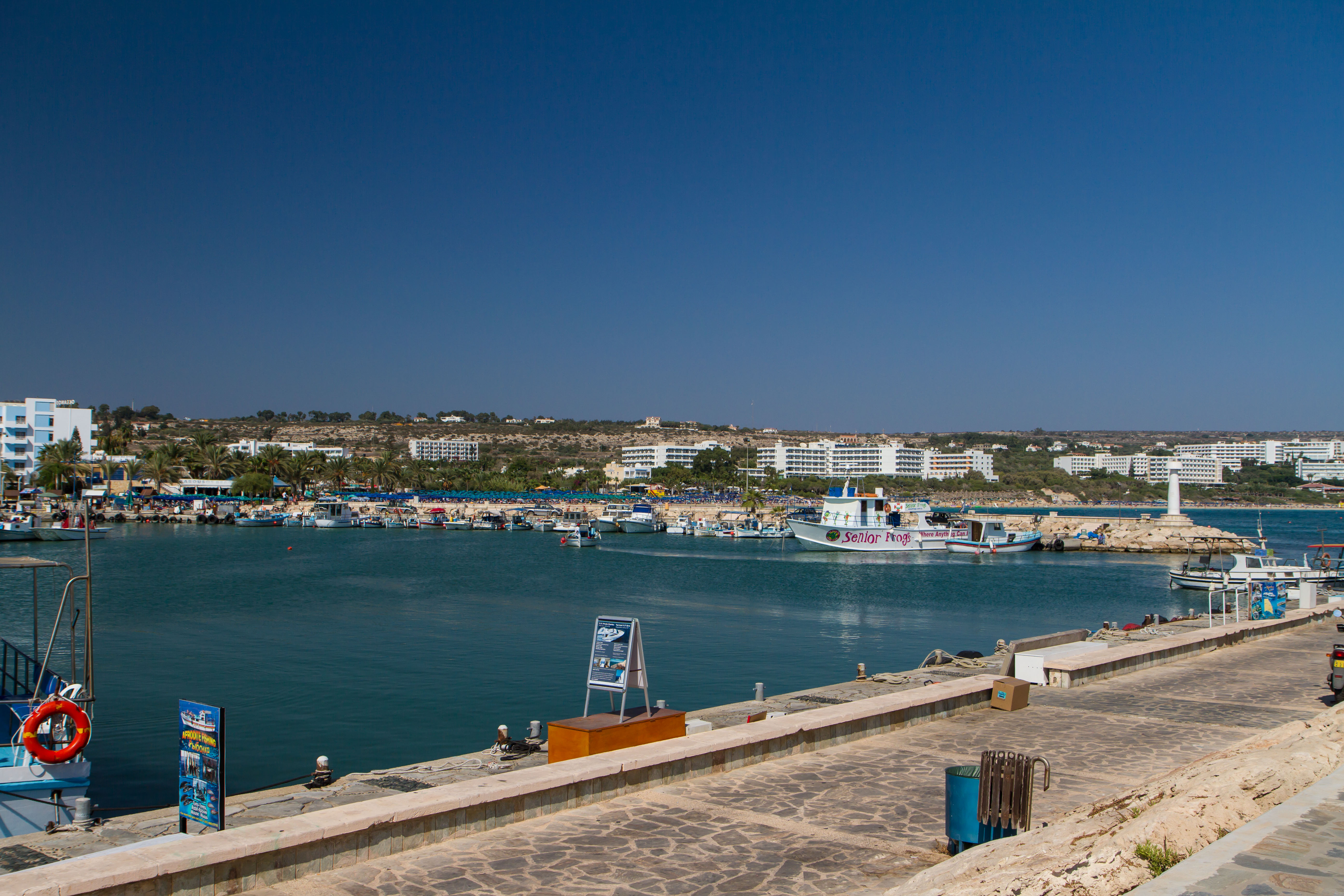 1st October, Ayia Napa, Cyprus